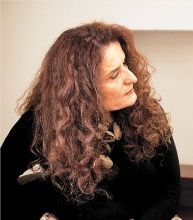 Actress Sofia Filippidou